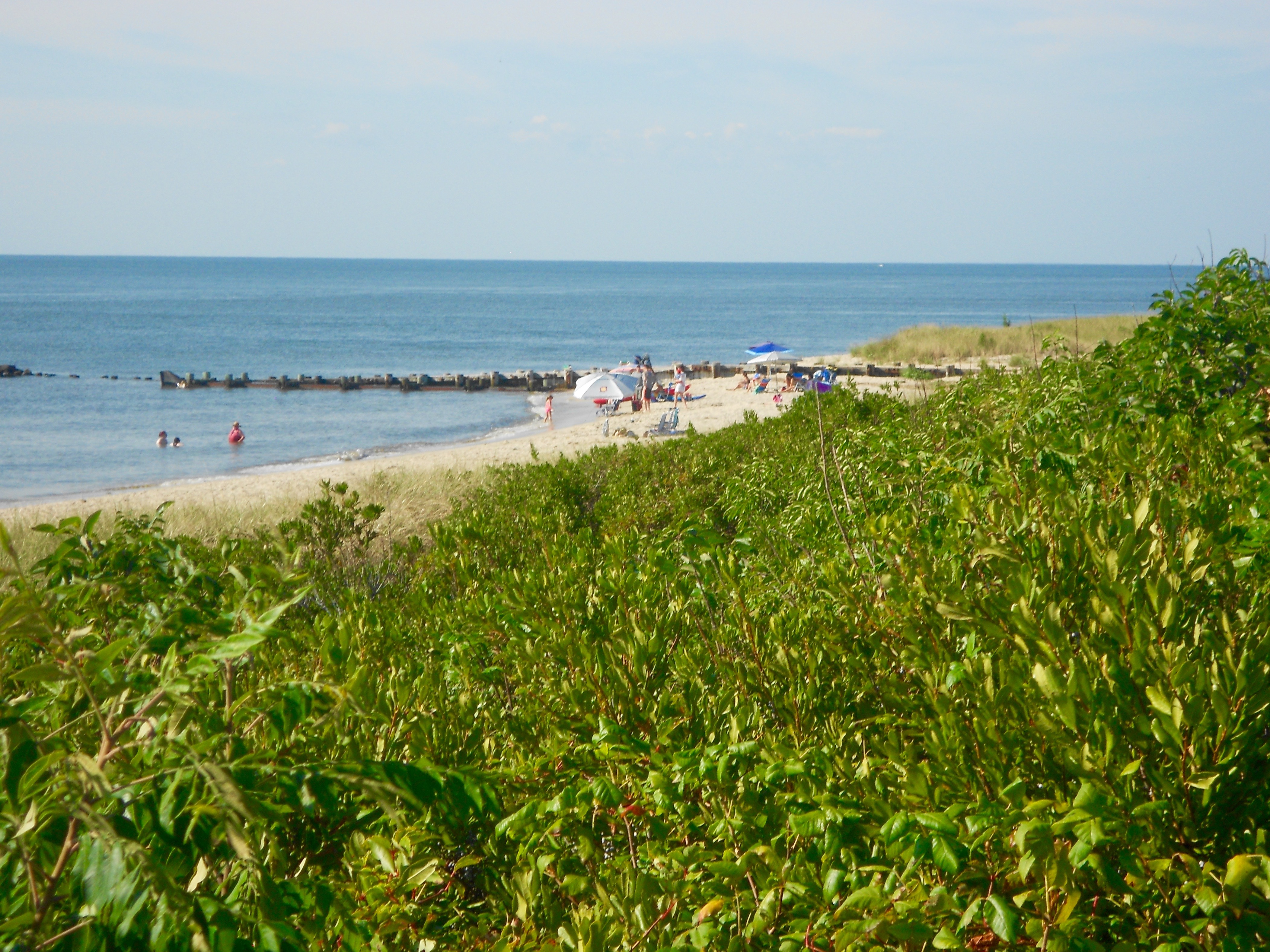 From Beach Avenue looking northwest in North Cape May, Cape May County, New Jersey on the Delaware Bay a few miles north of its junction with the Atlantic Ocean